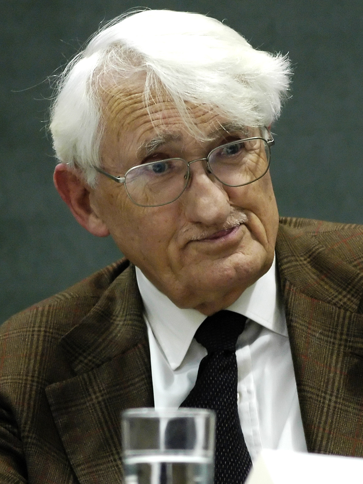 Jürgen Habermas during a discussion in the Munich School of Philosophy